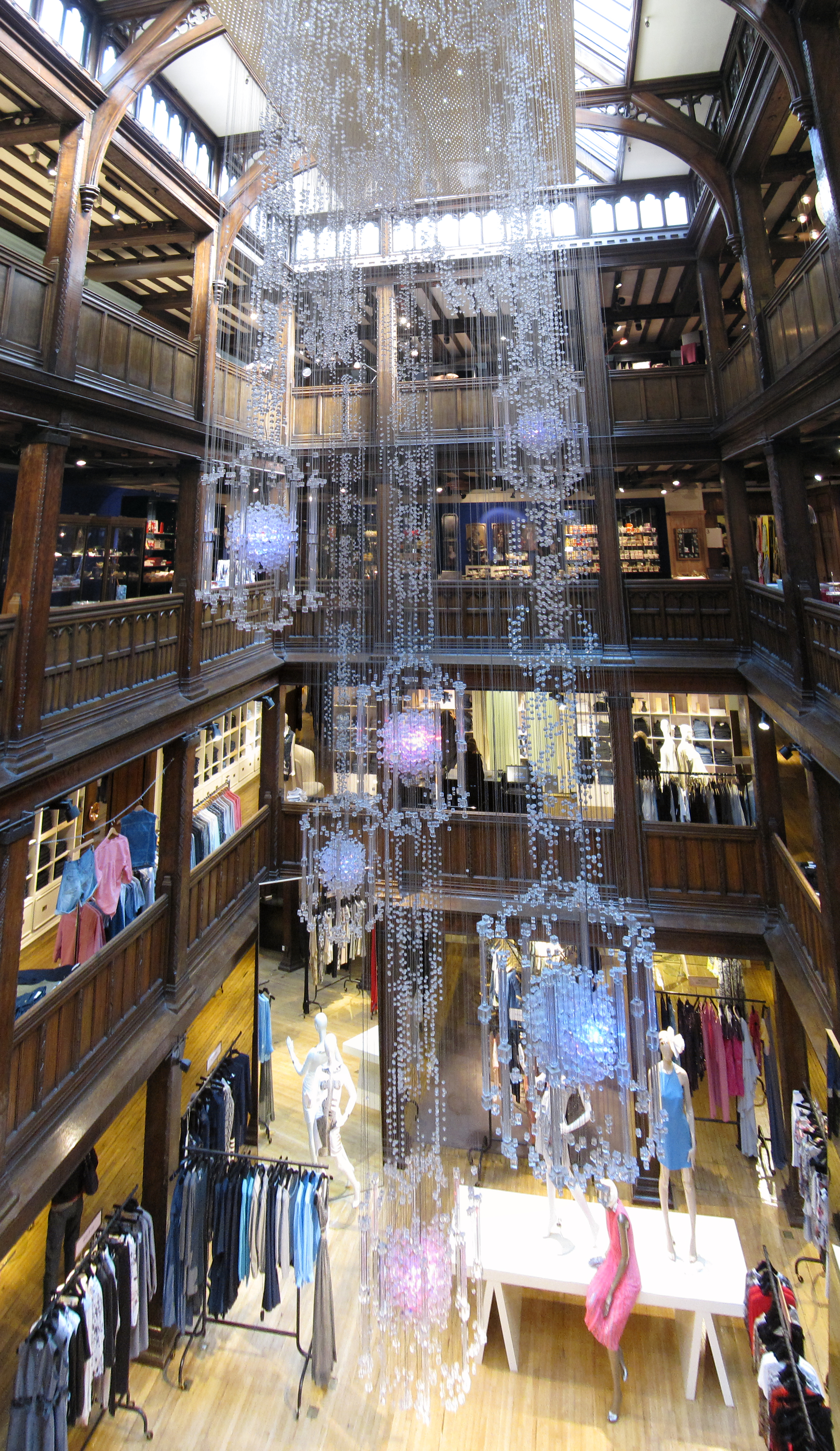 panorama